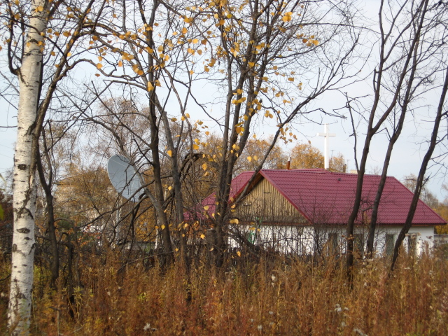 The Sity of Sovetskaya Gavan. The Adventist's church